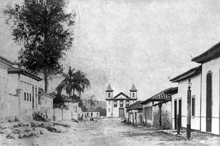 Main street (current Benedito Valadares street) of Pará de Minas, Minas Gerais, Brazil.